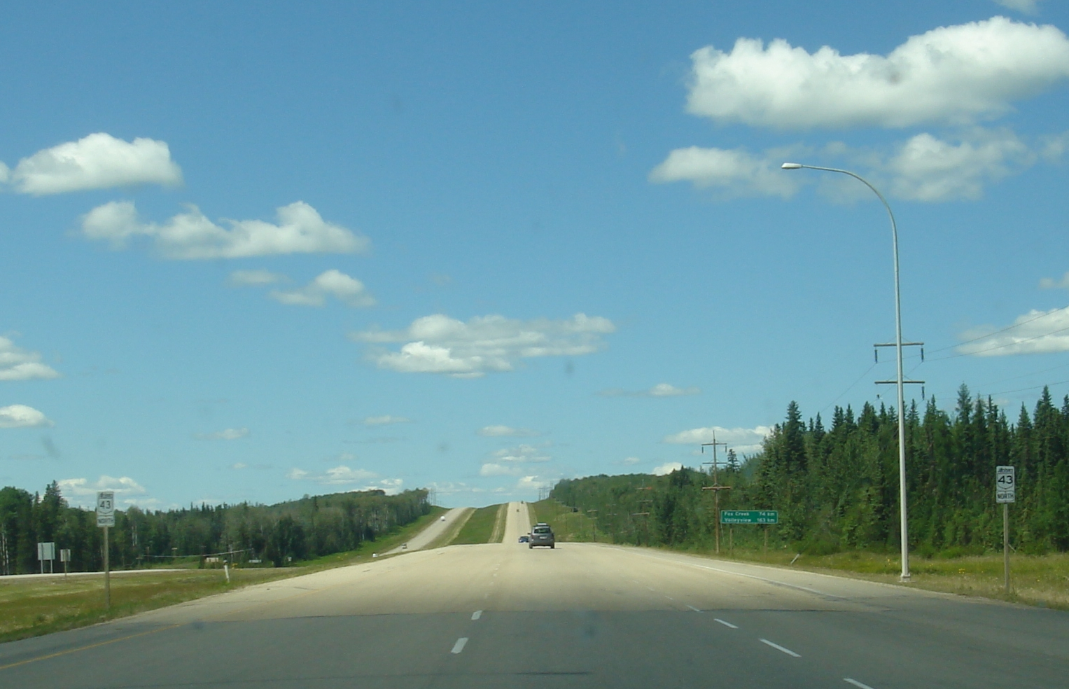 Highway 43, westbound, Alberta, Canada